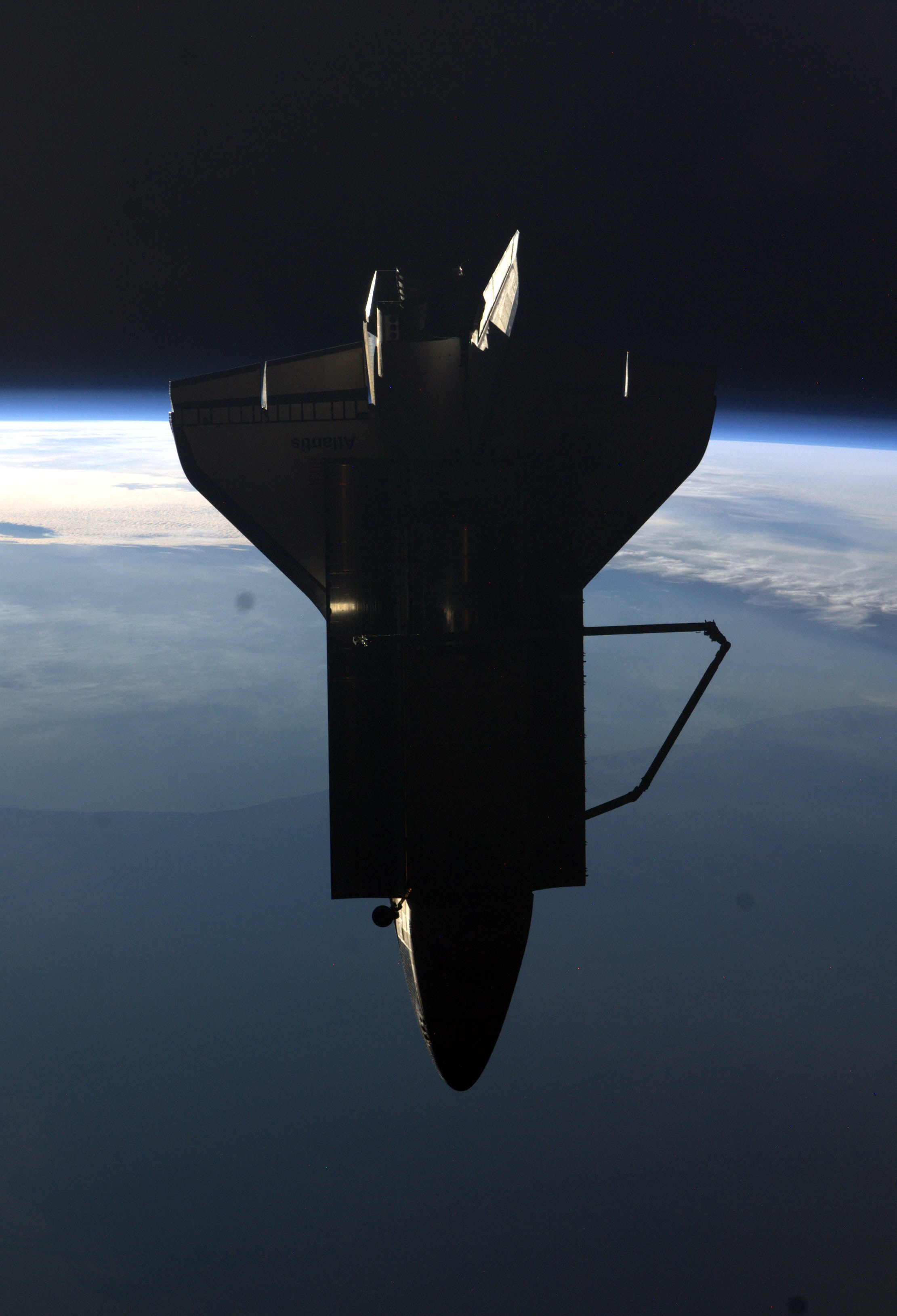 The view of Space Shuttle Atlantis on STS-135 fly around of the International Space Station.